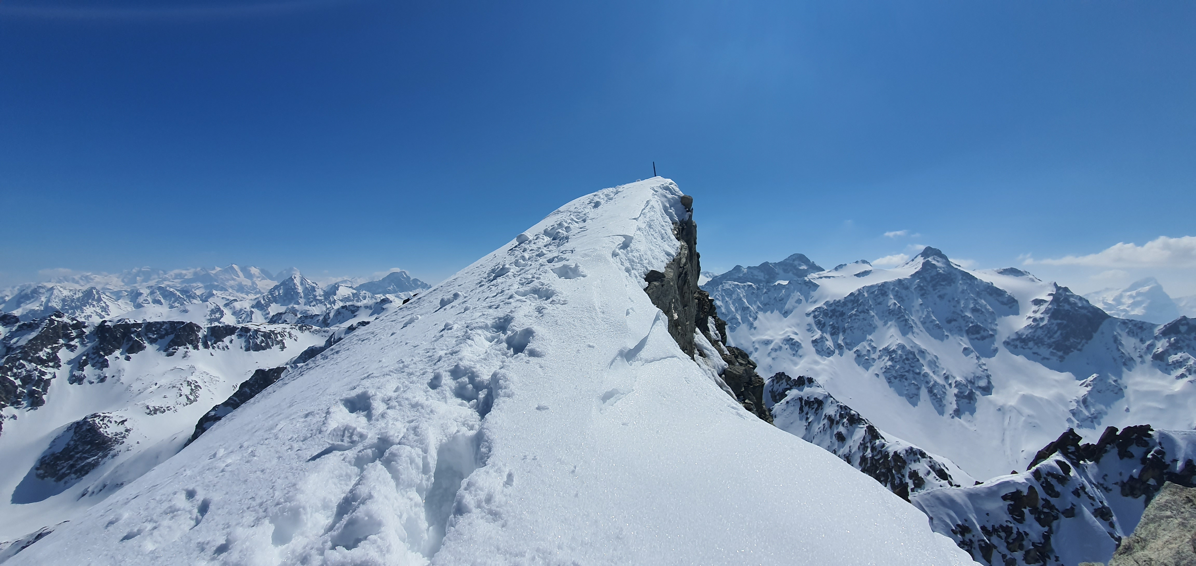 Summit of Piz Bleis Marscha (Surses / Bergün Filisur, Grison, Switzerland)